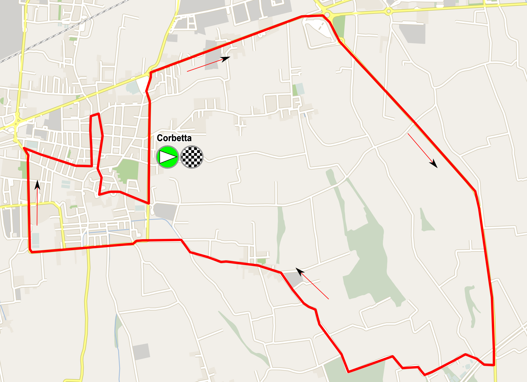 Map of stage 3 of Giro donne 2018.